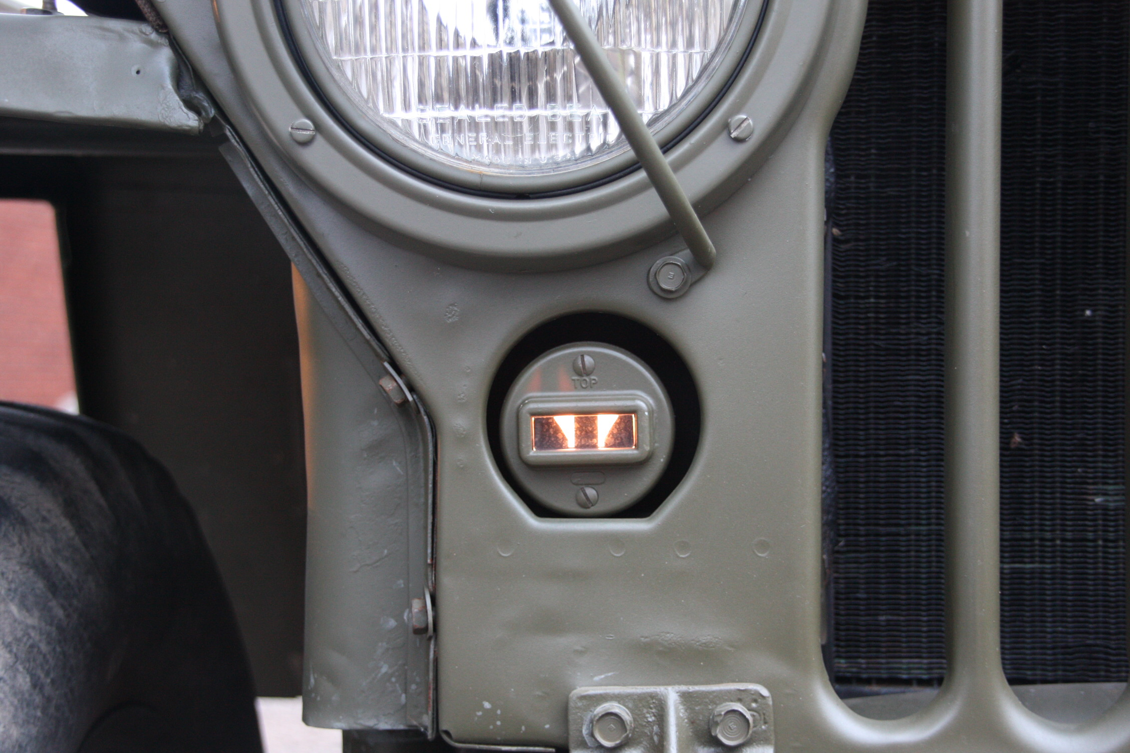 M38_Front_Blackout_Light.